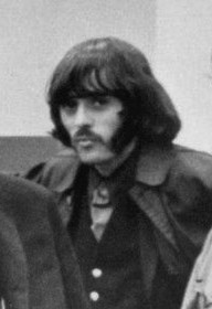 Photo of Jefferso Airplane. From left-Jorma Kaukonen, Grace Slick, Paul Kantner, Marty Balin, Spencer Dryden and Jack Casady.